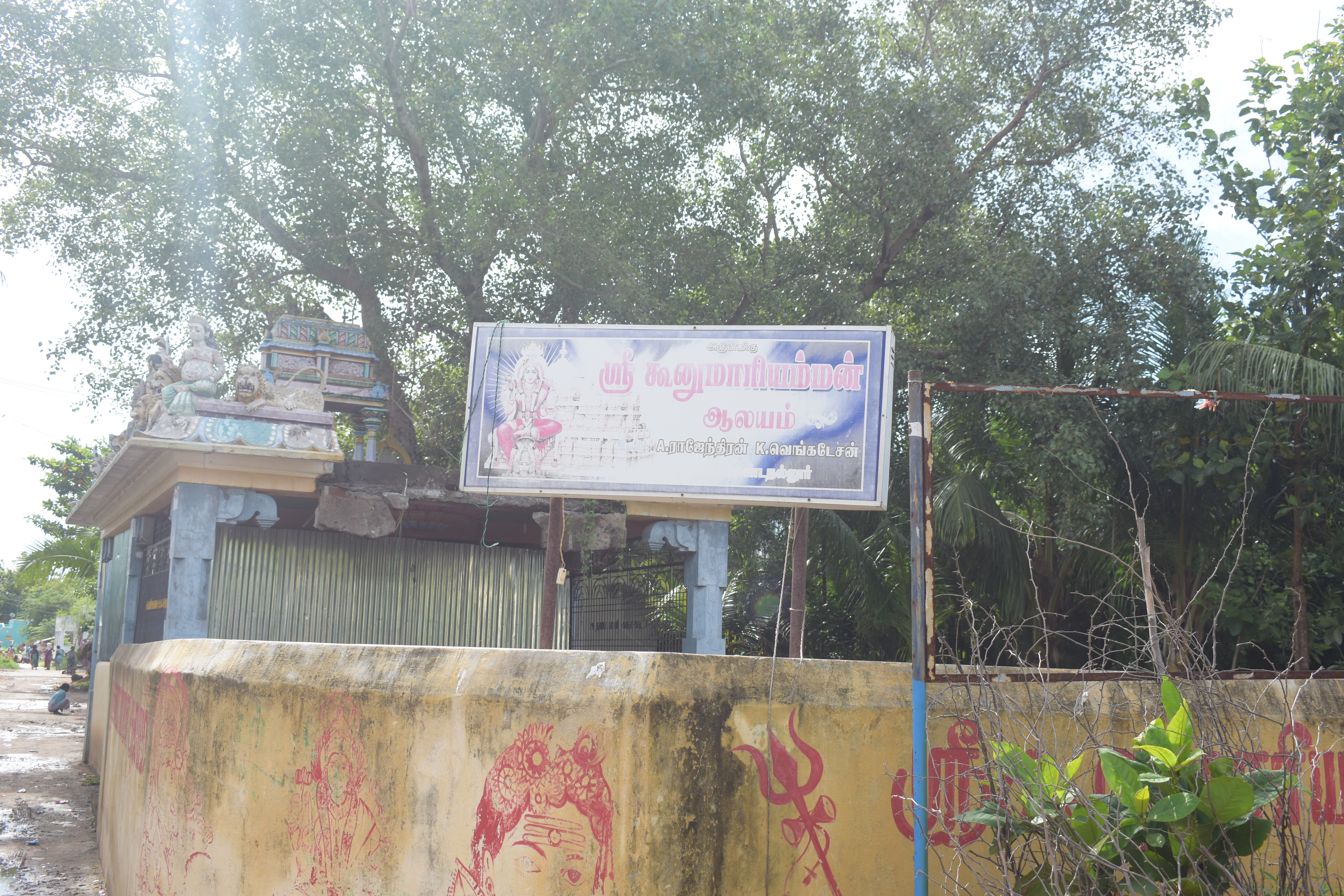 Eeswarakandanalloor Koonamaariyamman temple